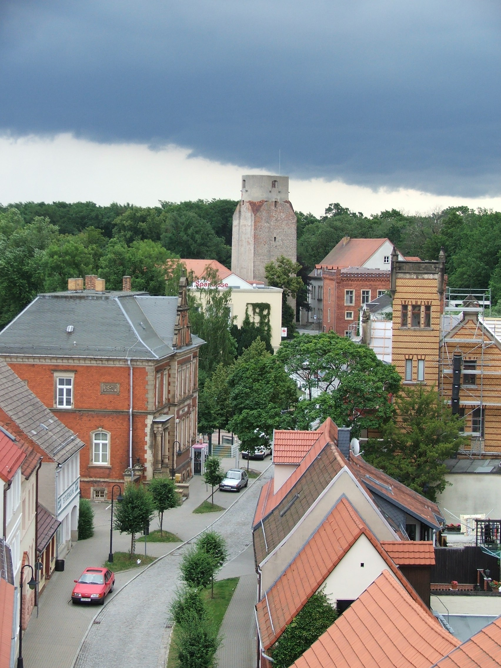 View over the Schloss-Street to the Lubwarttower